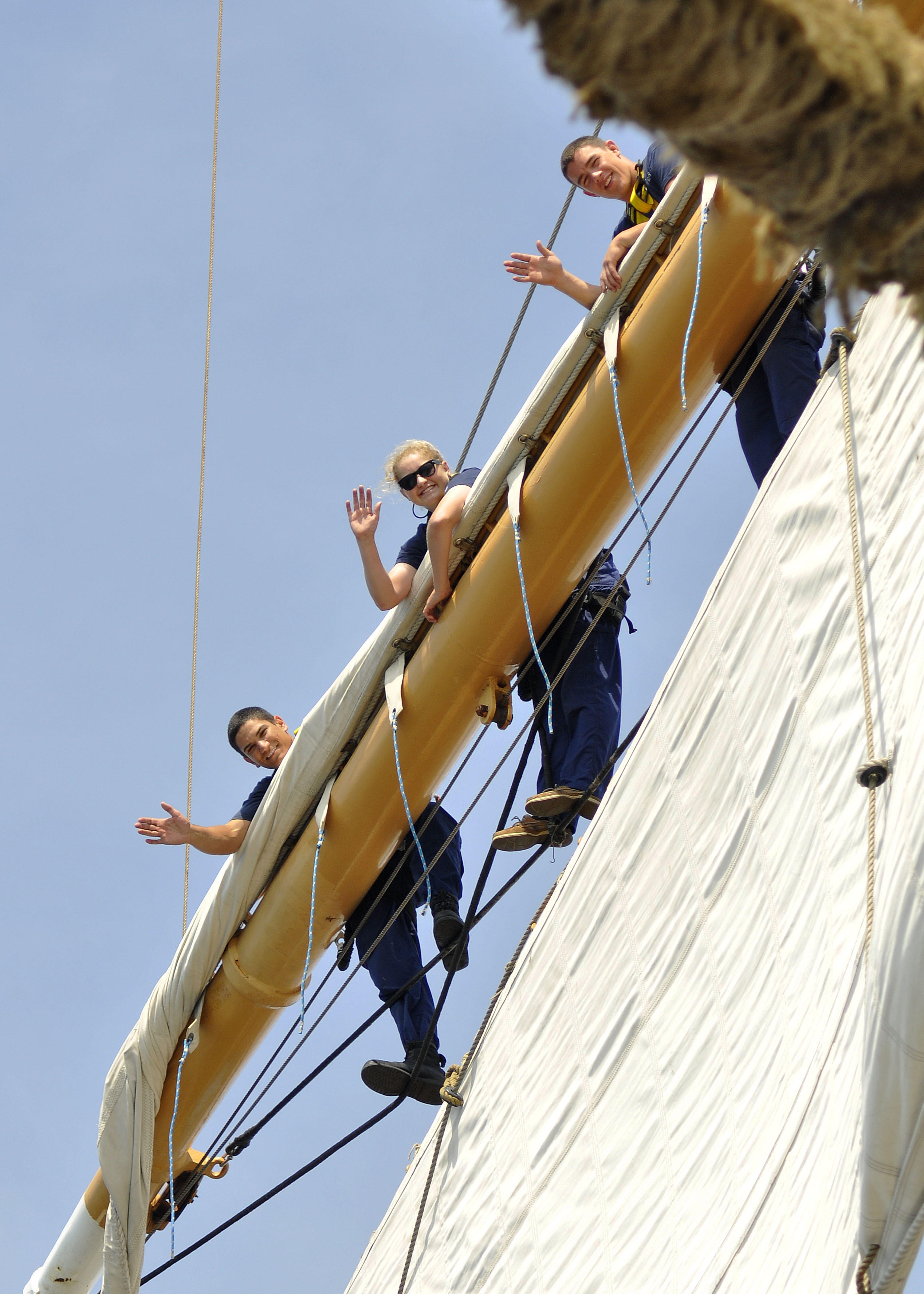 ATLANTIC OCEAN - Academy cadets wave hello from the rigging of the Coast Guard Cutter Eagle while underway to Halifax, Nova Scotia, Thursday, July 12, 2012. The Eagle is underway, conducting its summer training cruise that will end August 10 at its homeport in New London, Conn. U.S. Coast Guard photo by Petty Officer 3rd Class Erik Swanson.